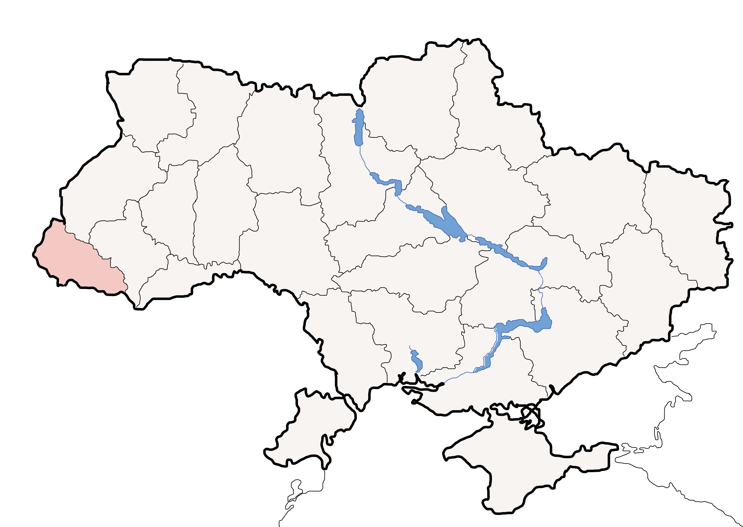 Political map of Ukraine, highlighting Zakarpattia Oblast